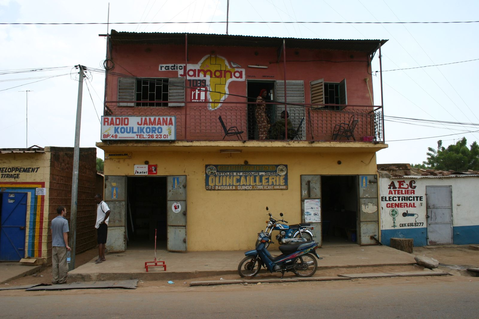 They also have stations in Segou and Koutiala.Radio Jamana Koulikoro